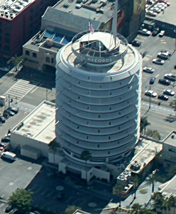 The Capitol Records Building in Hollywood, shot from about 1,600', looking south-west.